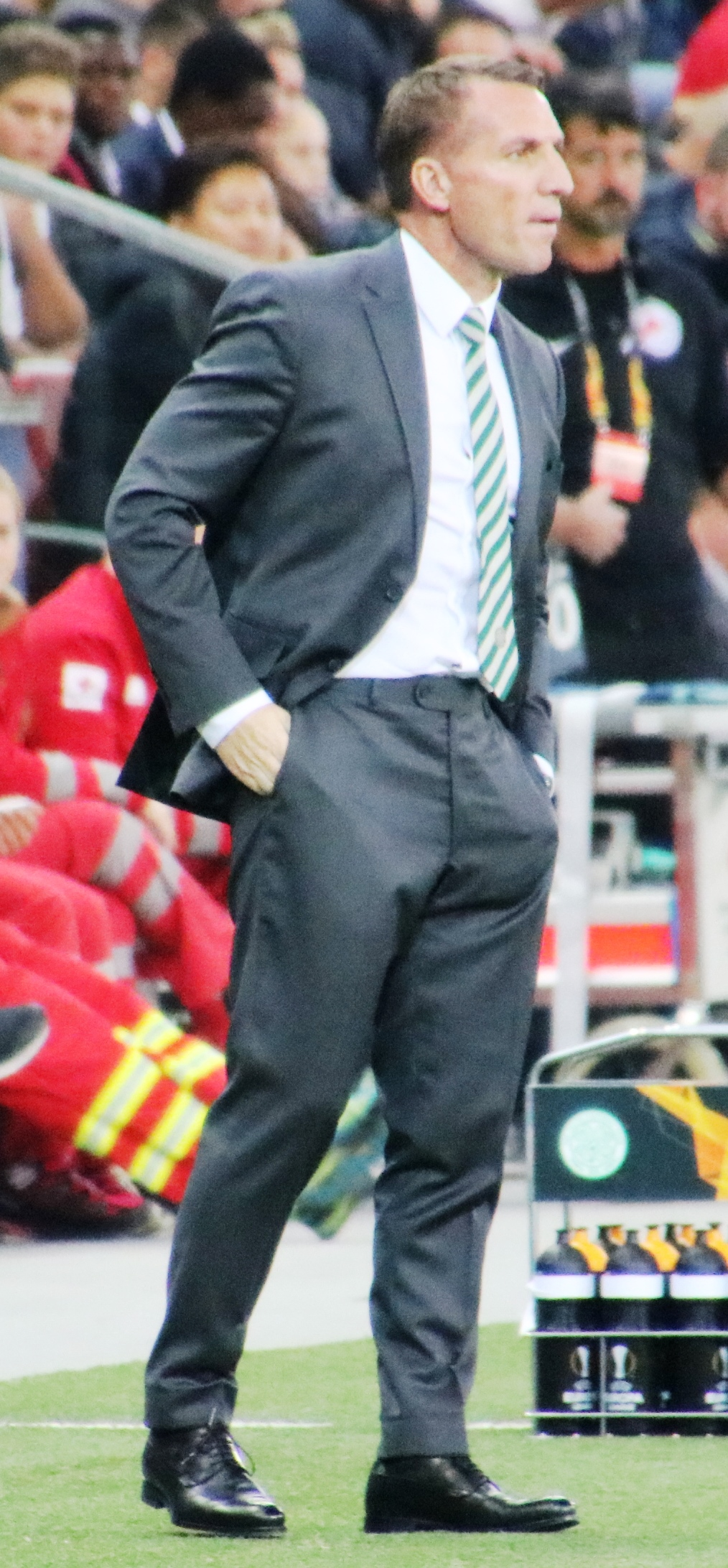 Uefa Euroleague group stage round 2